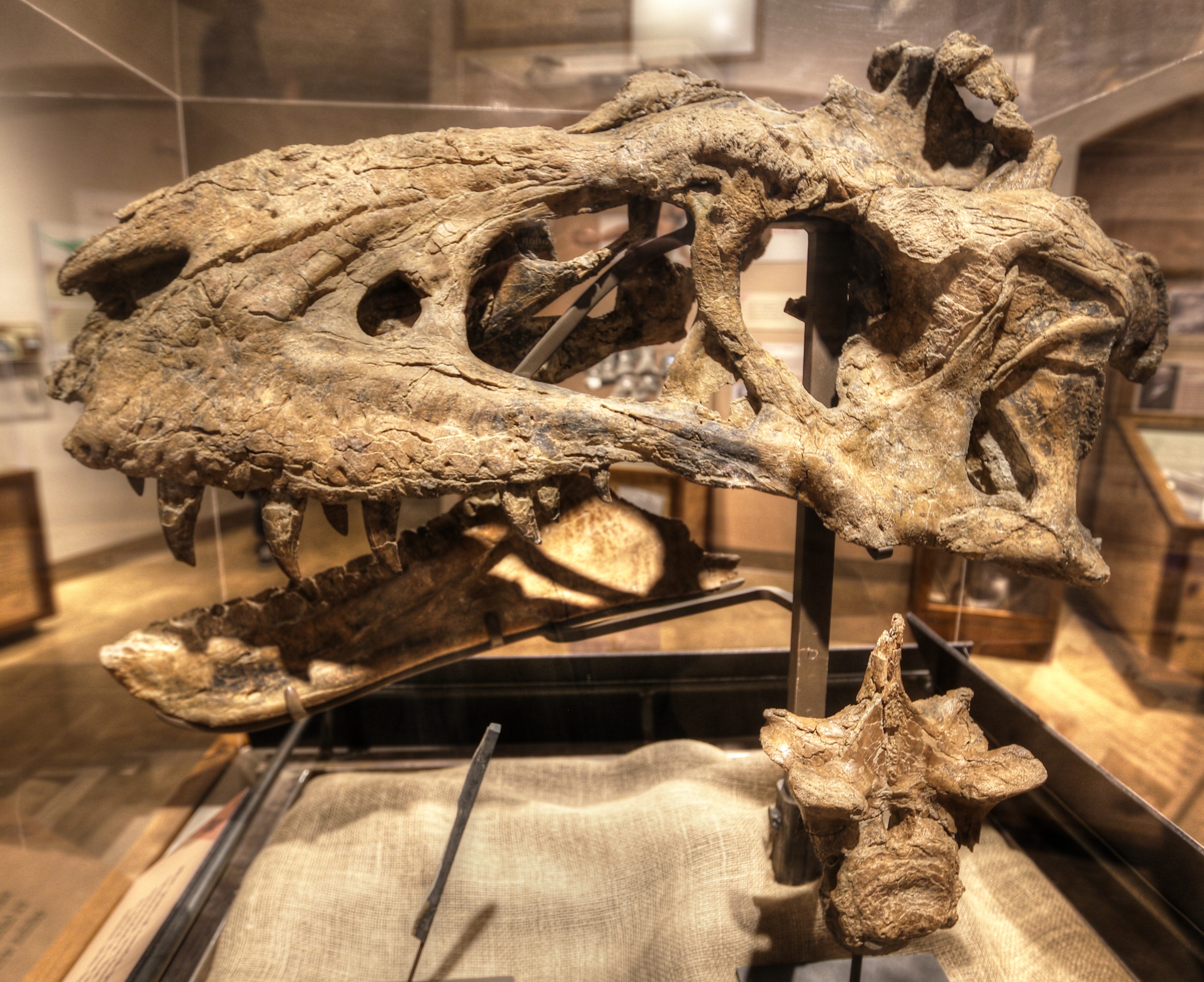 Family visiting museum.